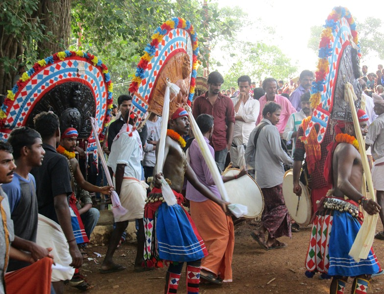 Thira, a popular ritual form of worship.